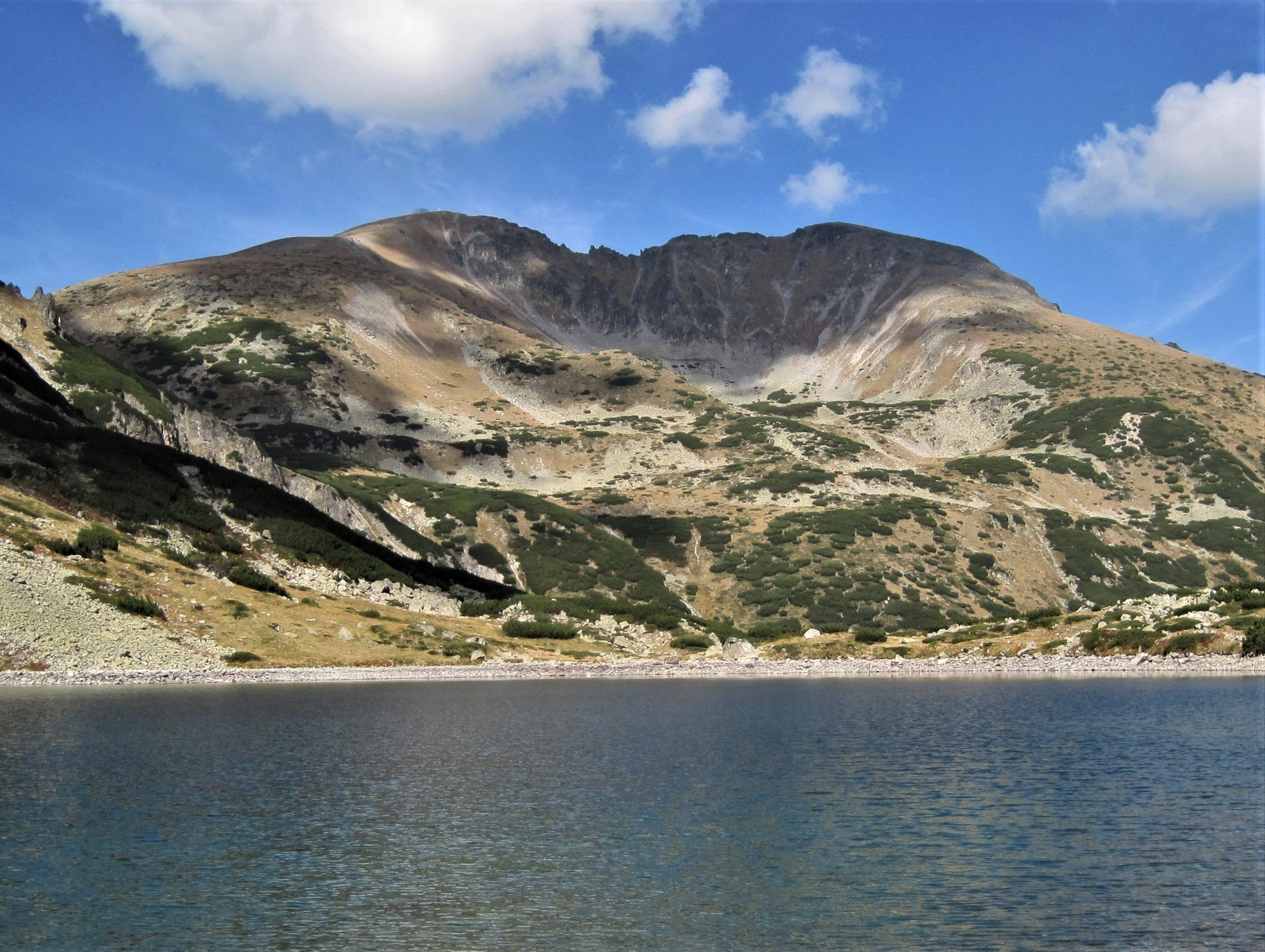 Musala and Malka Musala peaks seen from Maritsa Lakes